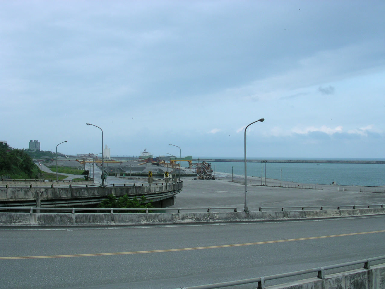 this photo taken by vegafish